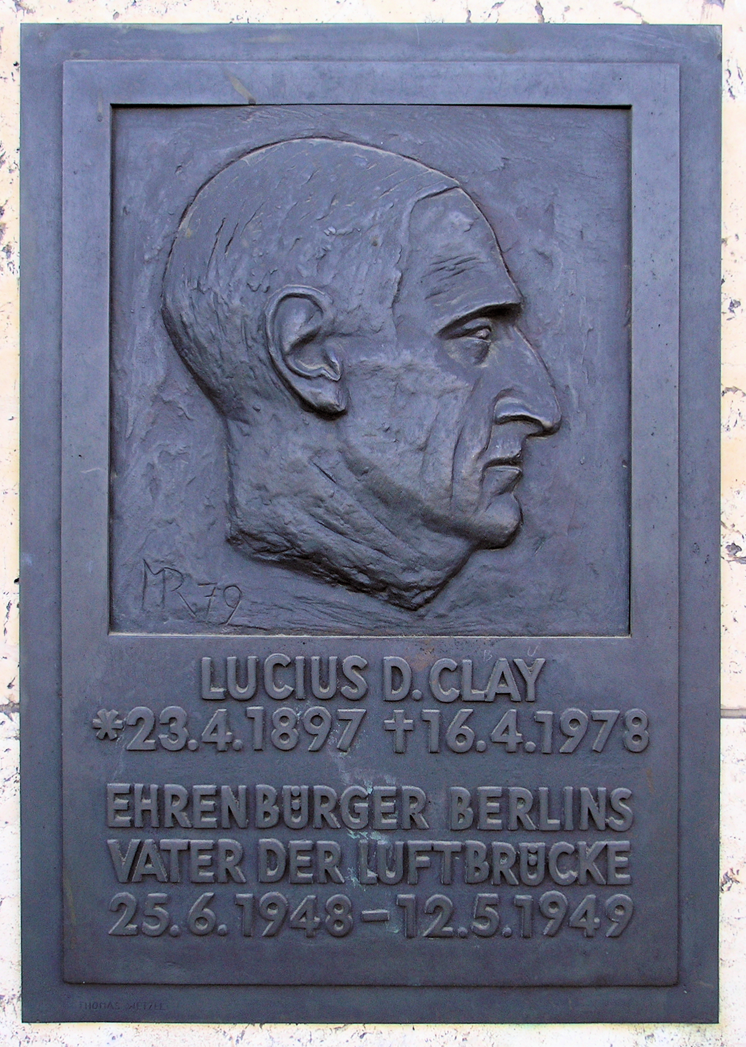 Memorial plaque, Lucius D. Clay, Platz der Luftbrücke 5, Berlin-Tempelhof, Germany Koordinate:52°29′0″N 13°23′16″E / 52.483333°N 13.38778°E